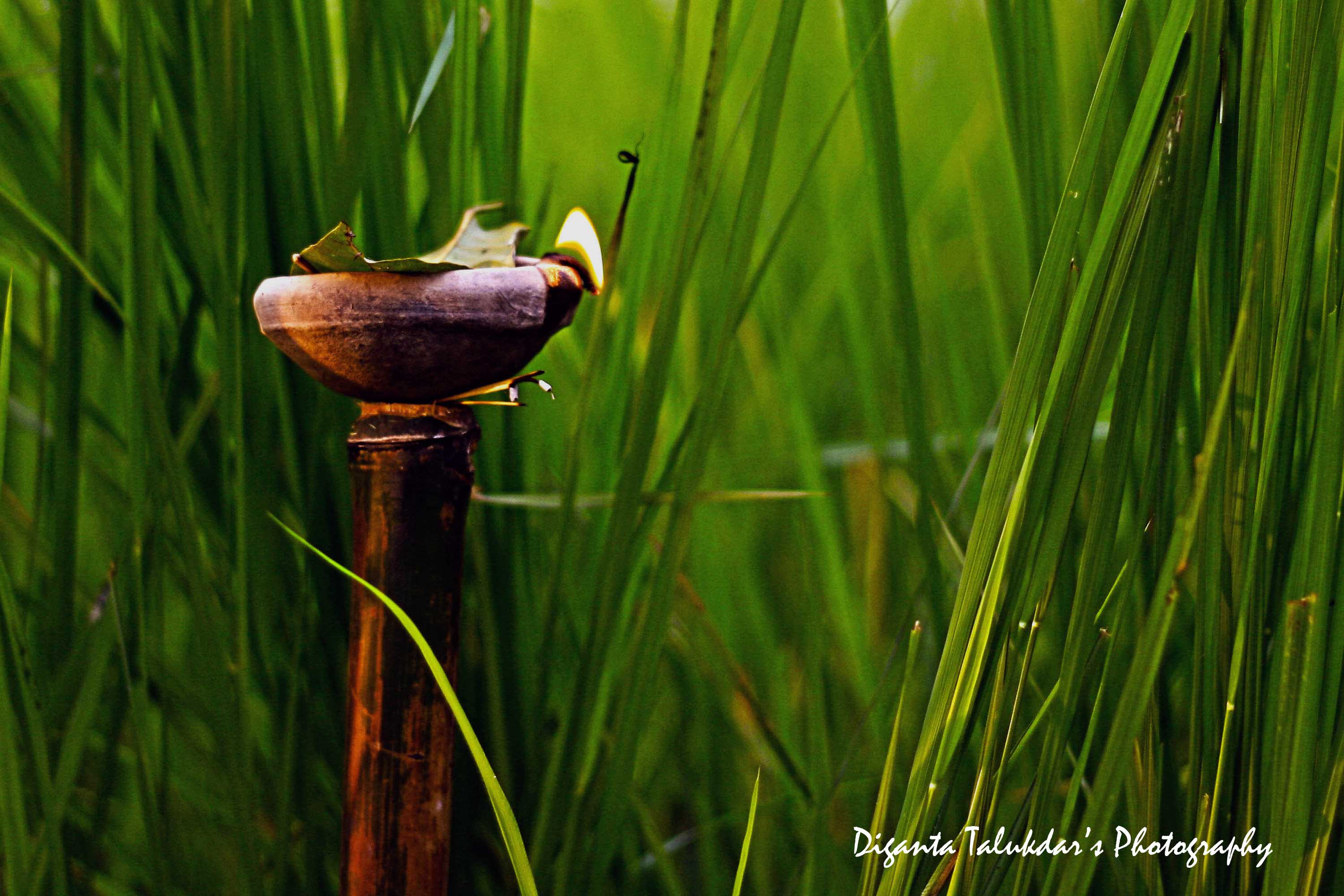 Kongali Bihu or Kati Bihu